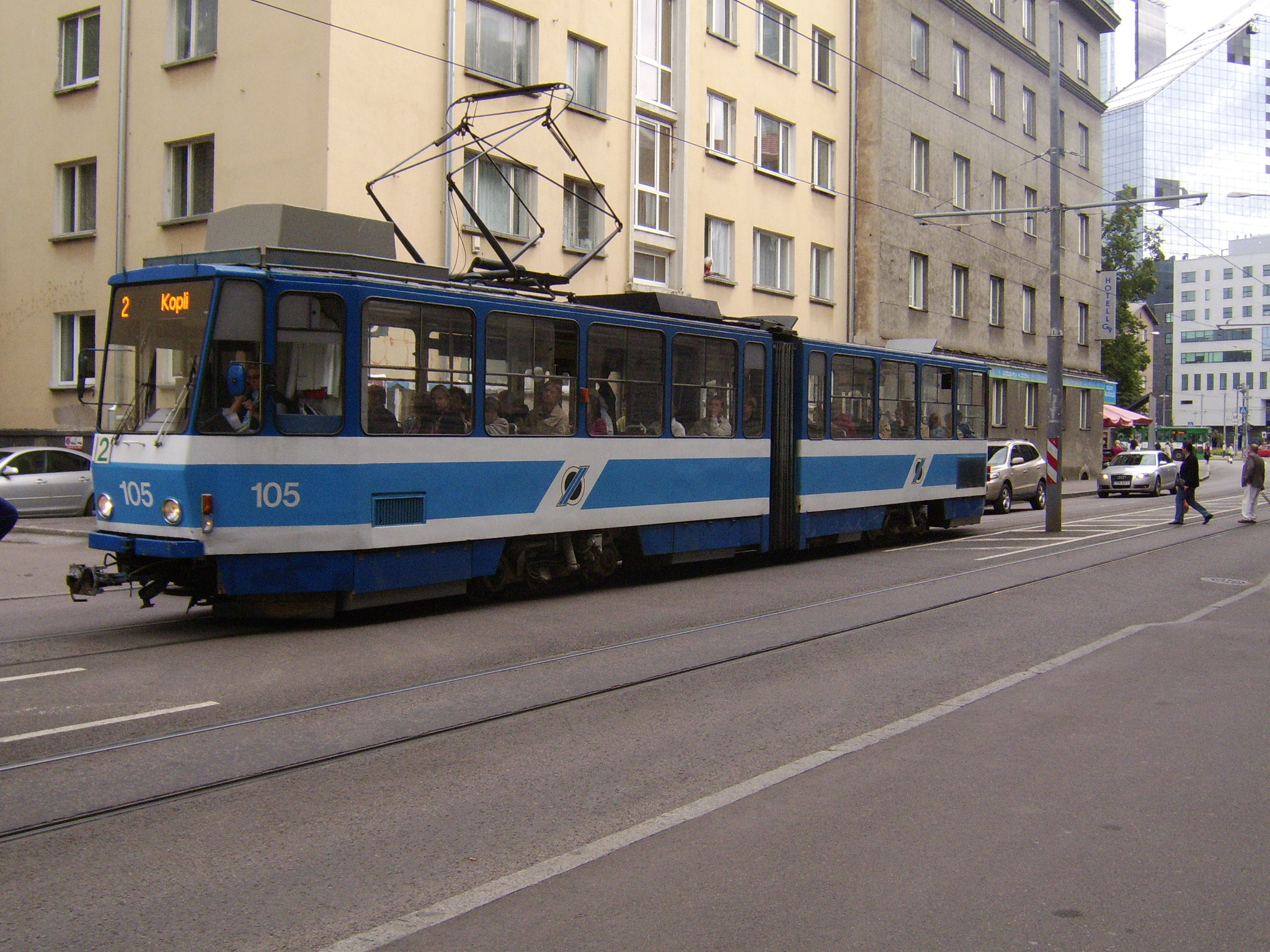 A Tatra KT4-type tram in Tallinn, Maneeži street.